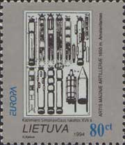 Europa.Inventions and Discoveries. Date of issue: 7th May 1994 Designer: K. Katkus Paper: coated Printing process: offset Perforation: comb 12 Size: 30 x 35 mm Sheet composition: 50 (5 x 10) stamps Printing run: 500.000 Michel catalogue number: 555 80 C. multicoloured. Rockets by Kazimieras Simonavicius, XVII c